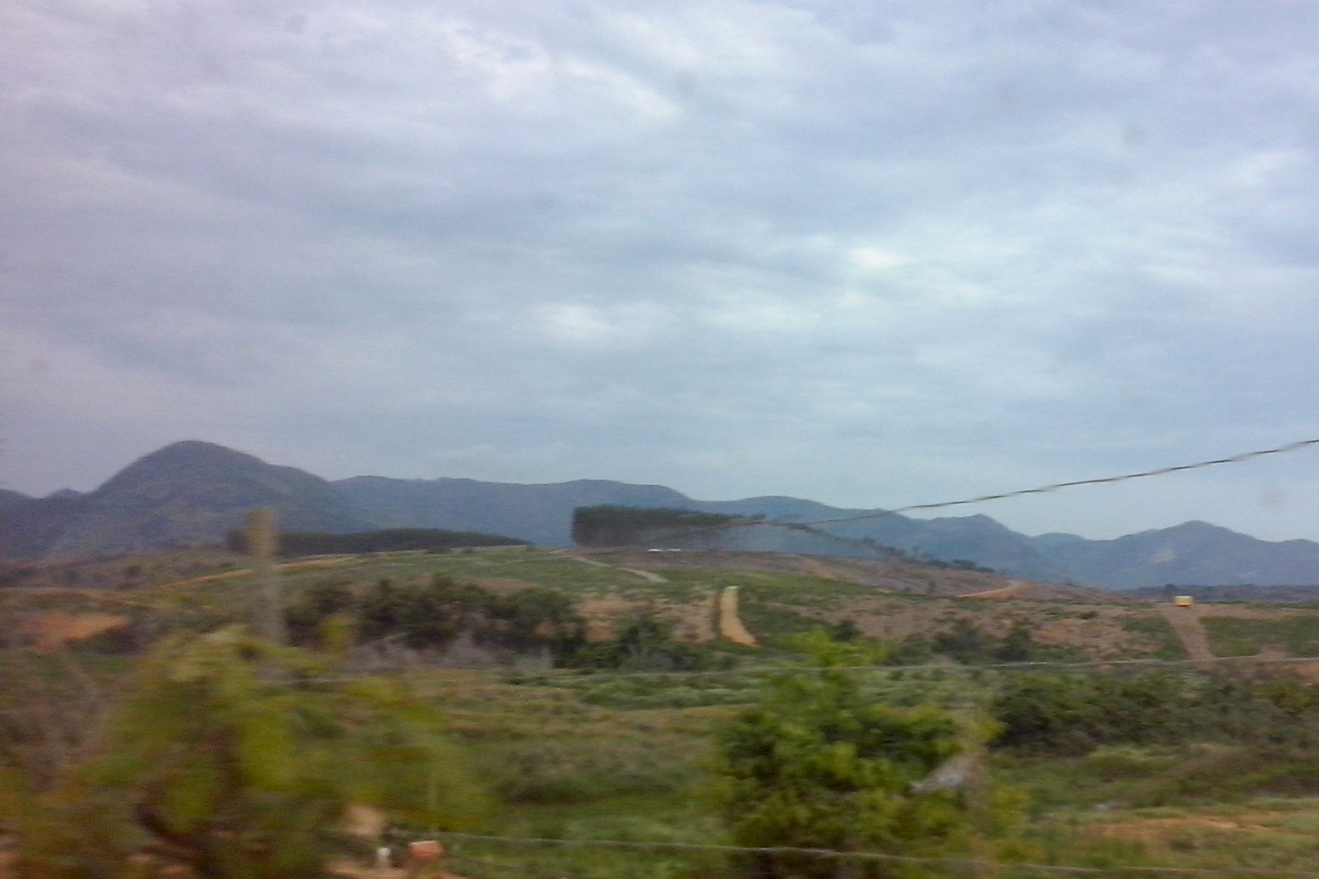 Cultivation and extraction of eucalyptus in Bom Jesus do Galho, Minas Gerais, Brazil.